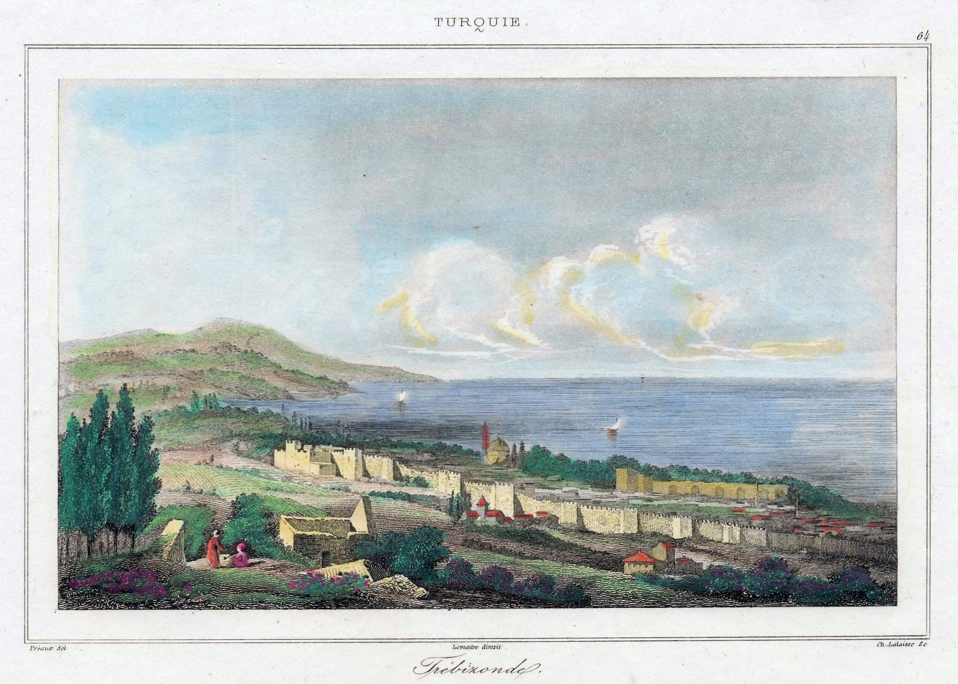 Trebizond from Boztepe by Charles de Lalaisse in 1840